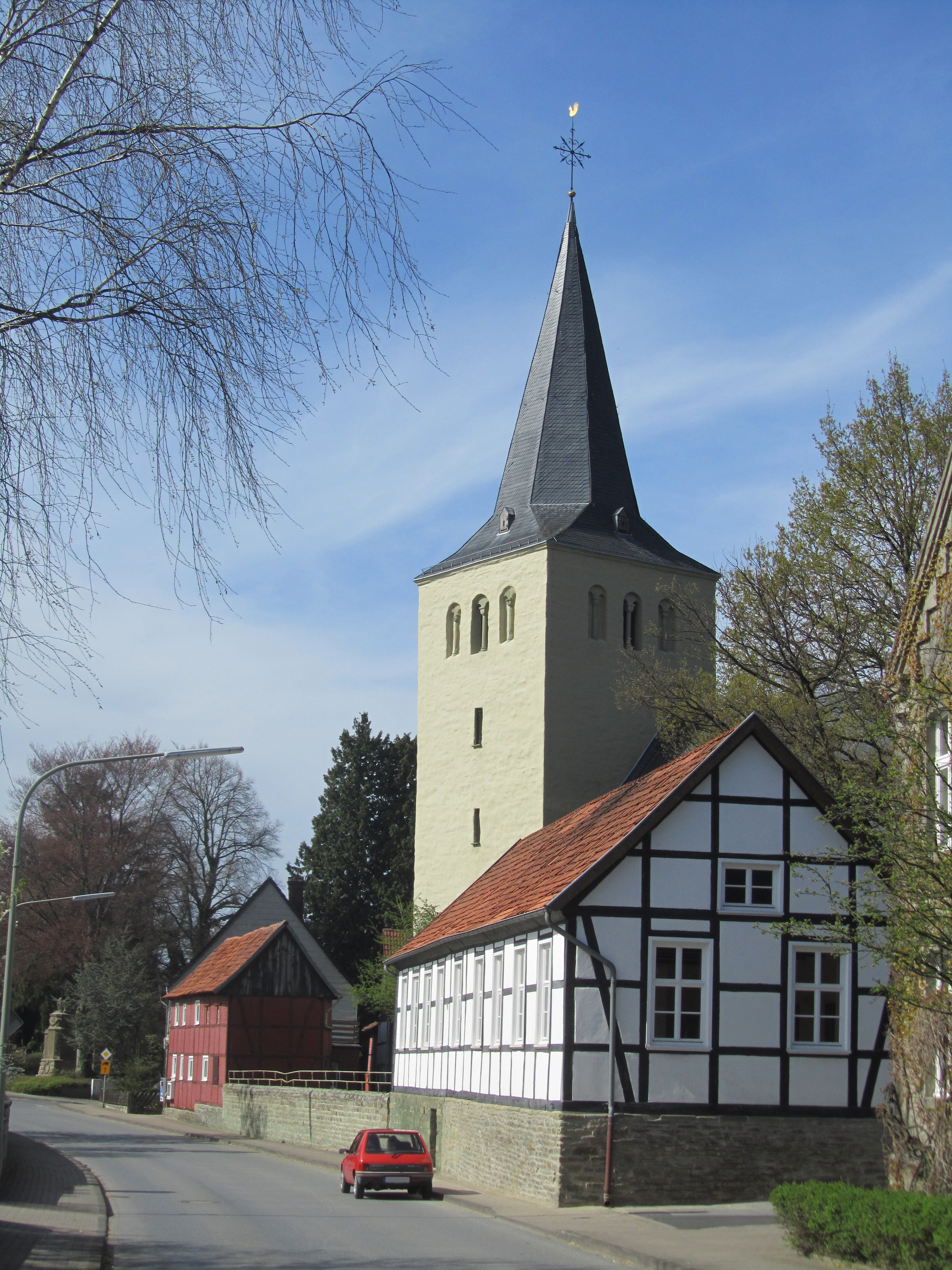 Schwefe near Soest, Germany, inner village, Tower of romanic church St. Severin